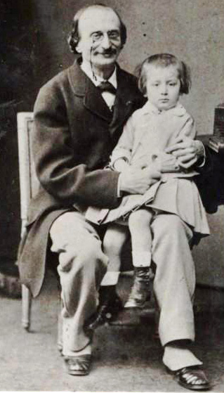 Photograph of Jacques Offenbach and his son Auguste. Scanned from Le Figaro, 1865, reproduced at Est.OffenbachJ.004, Bibliothèque nationale de France, département Musique.